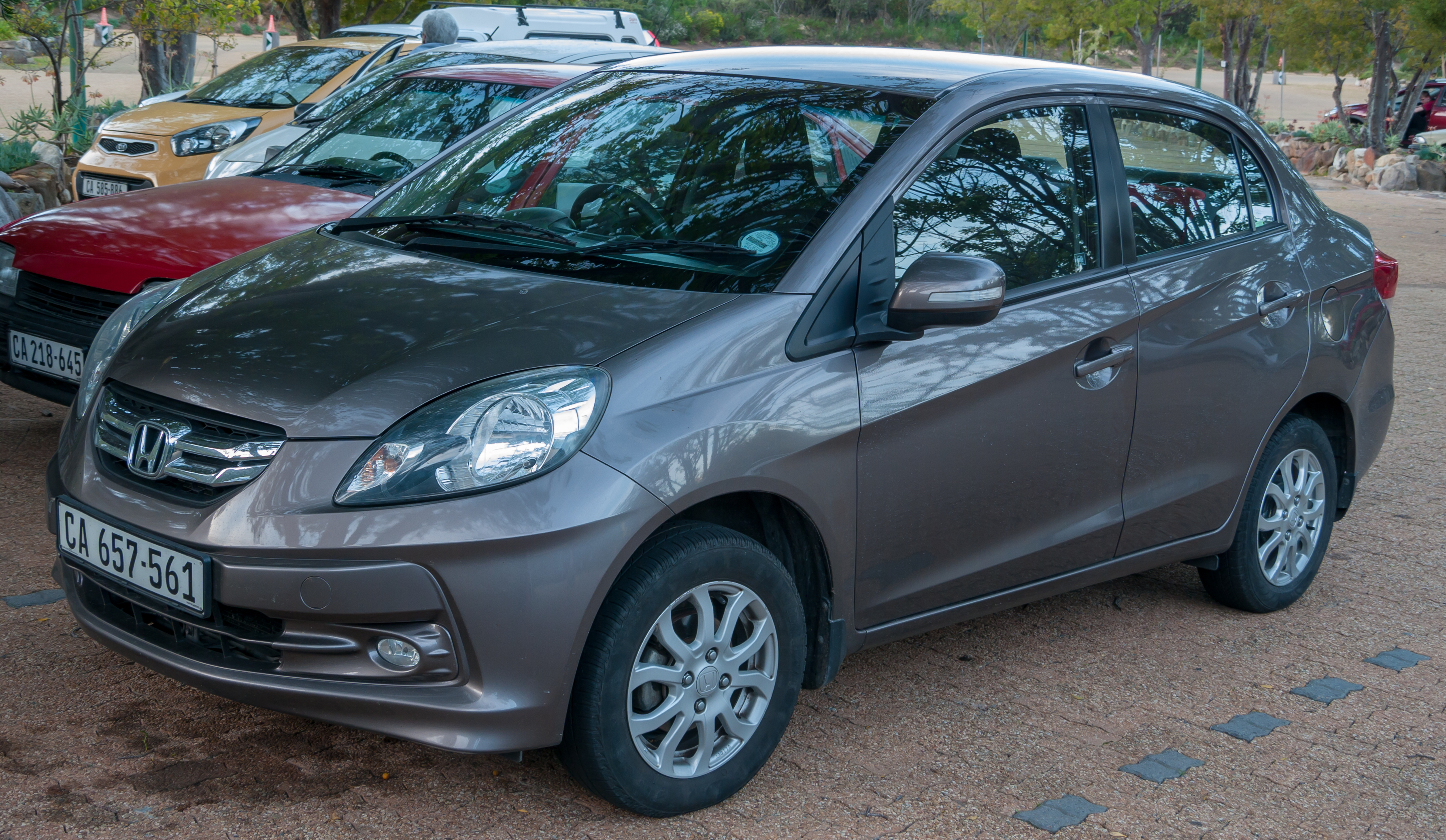 Honda Brio Amaze, Cape Town